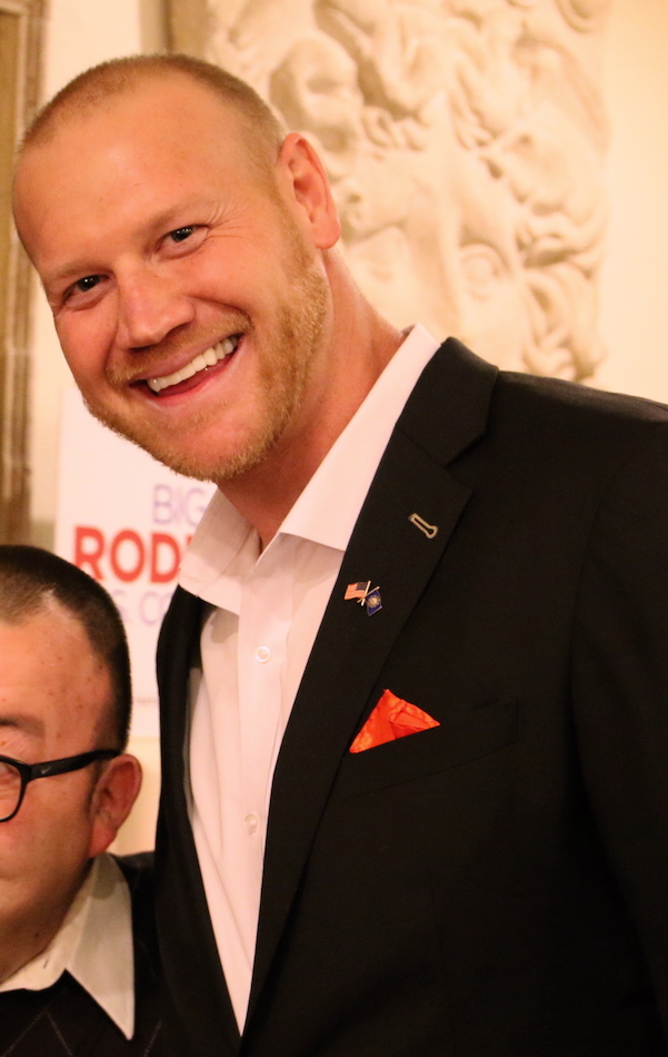 Dan Rodimer, candidate for United States Congress in Nevada, at his 2019 Christmas Party